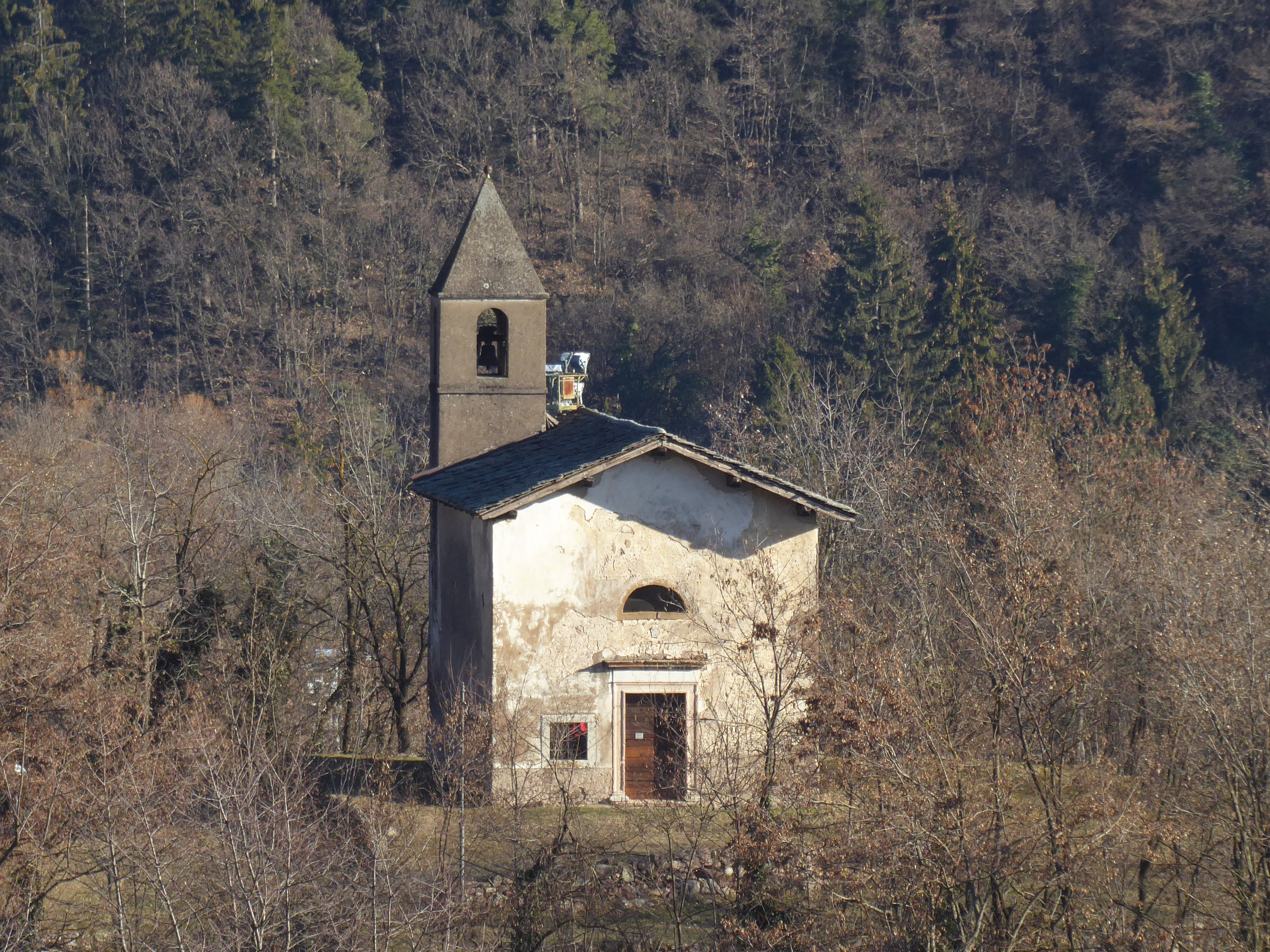 Fornace (Trentino, Italy) - Saint Roch church